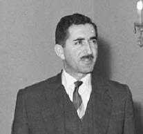 Cropped picture of Rashid Karami meeting Egyptian President Gamal Abdel Nasser (not seen) in Cairo